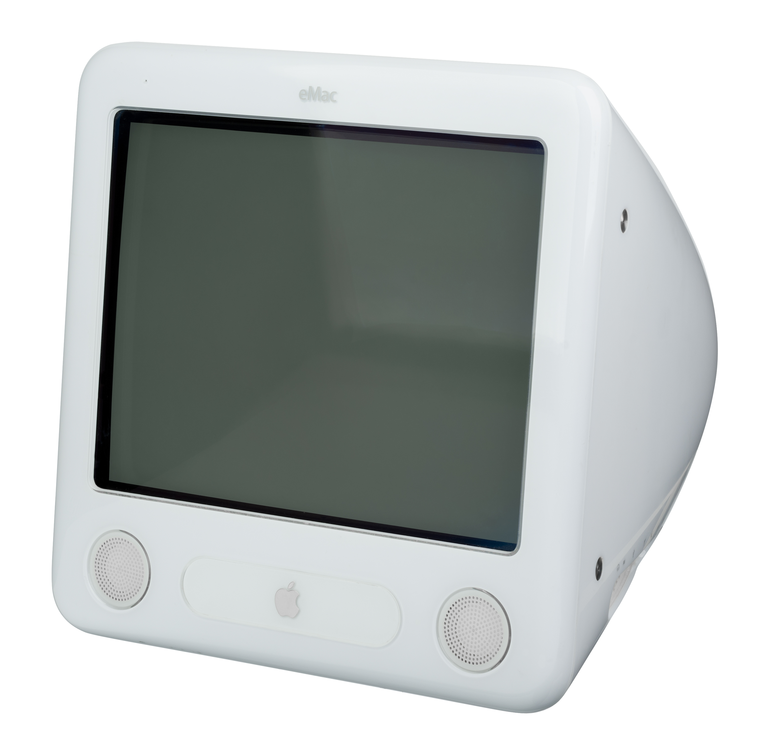 The Apple eMac, an all-in-one computer released by Apple in 2002. It used a CRT monitor that had the computer built around it, similar to the first generation iMacs. This was at first an education-market computer, but was later sold in stores.